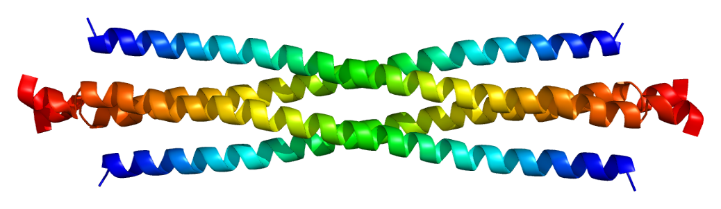 Structure of the HDAC4 protein. Based on PyMOL rendering of PDB 2h8n.